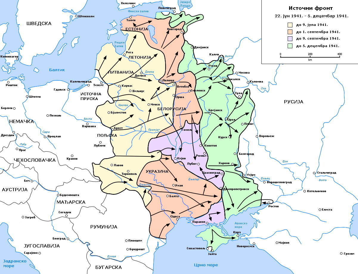 Map of the Eastern Front (WWII), 1941-06-21 to 1941-12-05 to 9 July 1941 to 1 September 1941 to 9 September 1941 to 5 December 1941